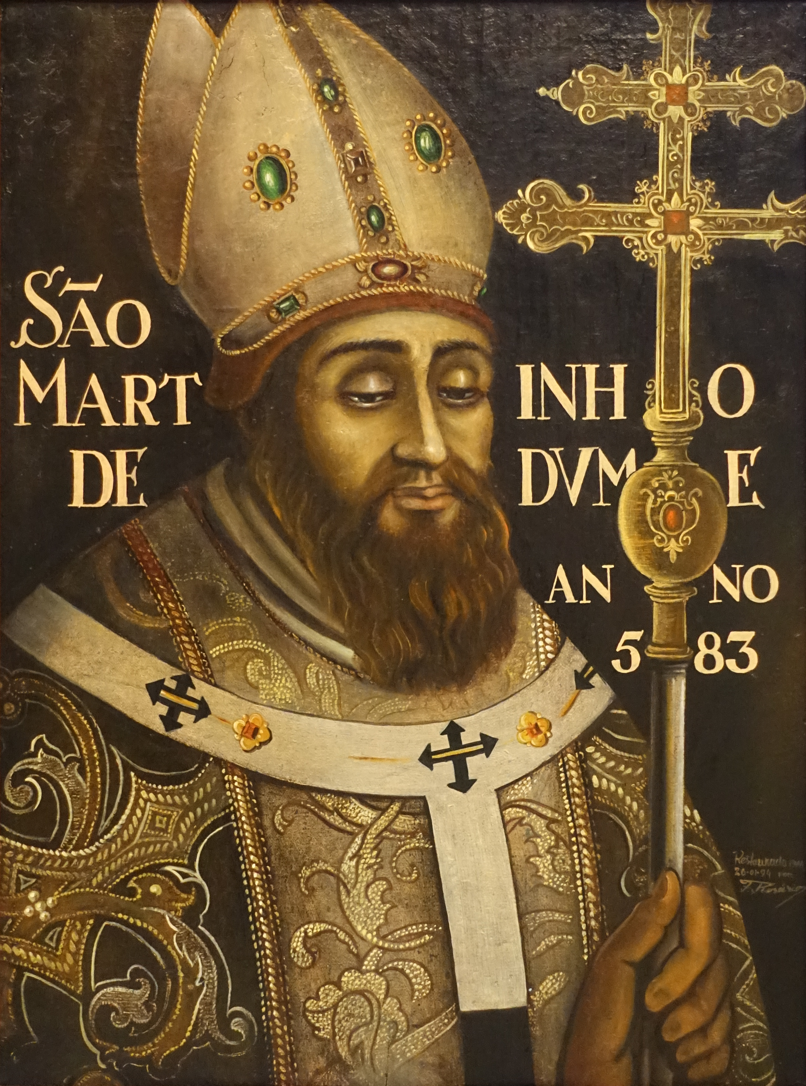 Saint Martin of Braga, Archbishop of Braga